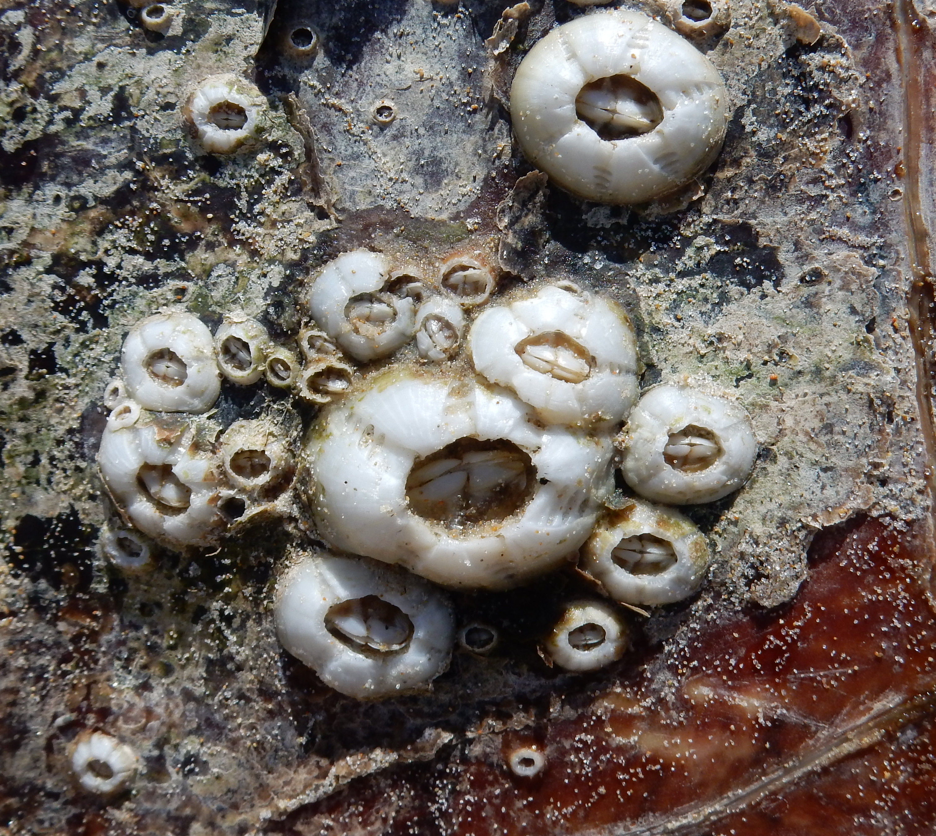 Chelonibia testudinaria barnacles on a stranded loggerhead turtle, Mediterranean beach near Haifa, Israel